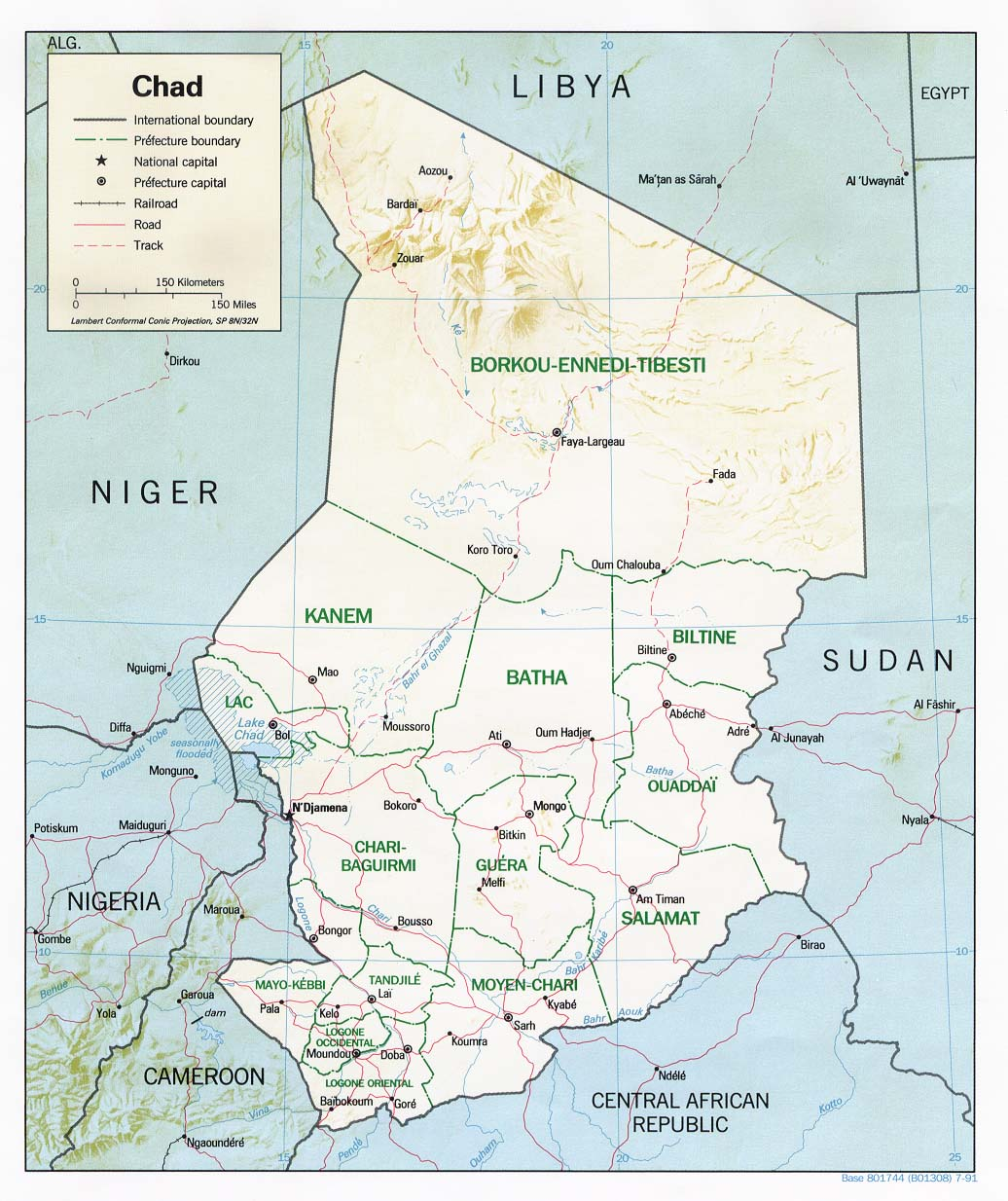 Shaded relief map of Chad, 1991, produced by the U.S. Central Intelligence Agency.